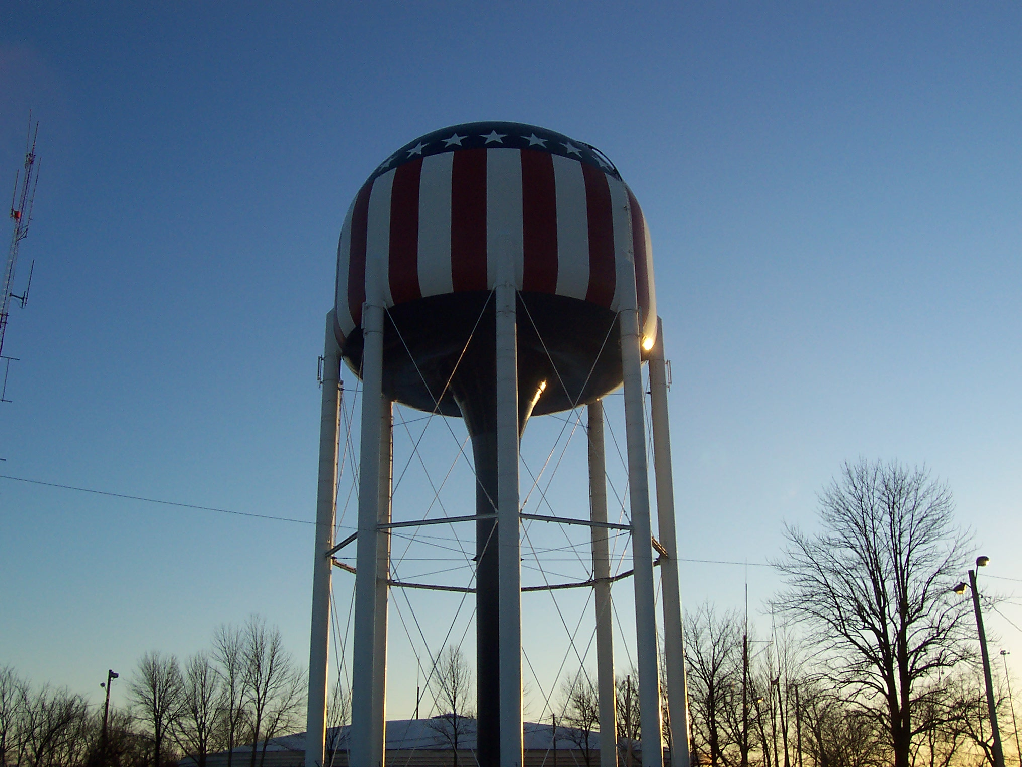 The patriotic water tower atop Reservoir Hill is a recognizable landmark in Bowling Green, Kentucky.